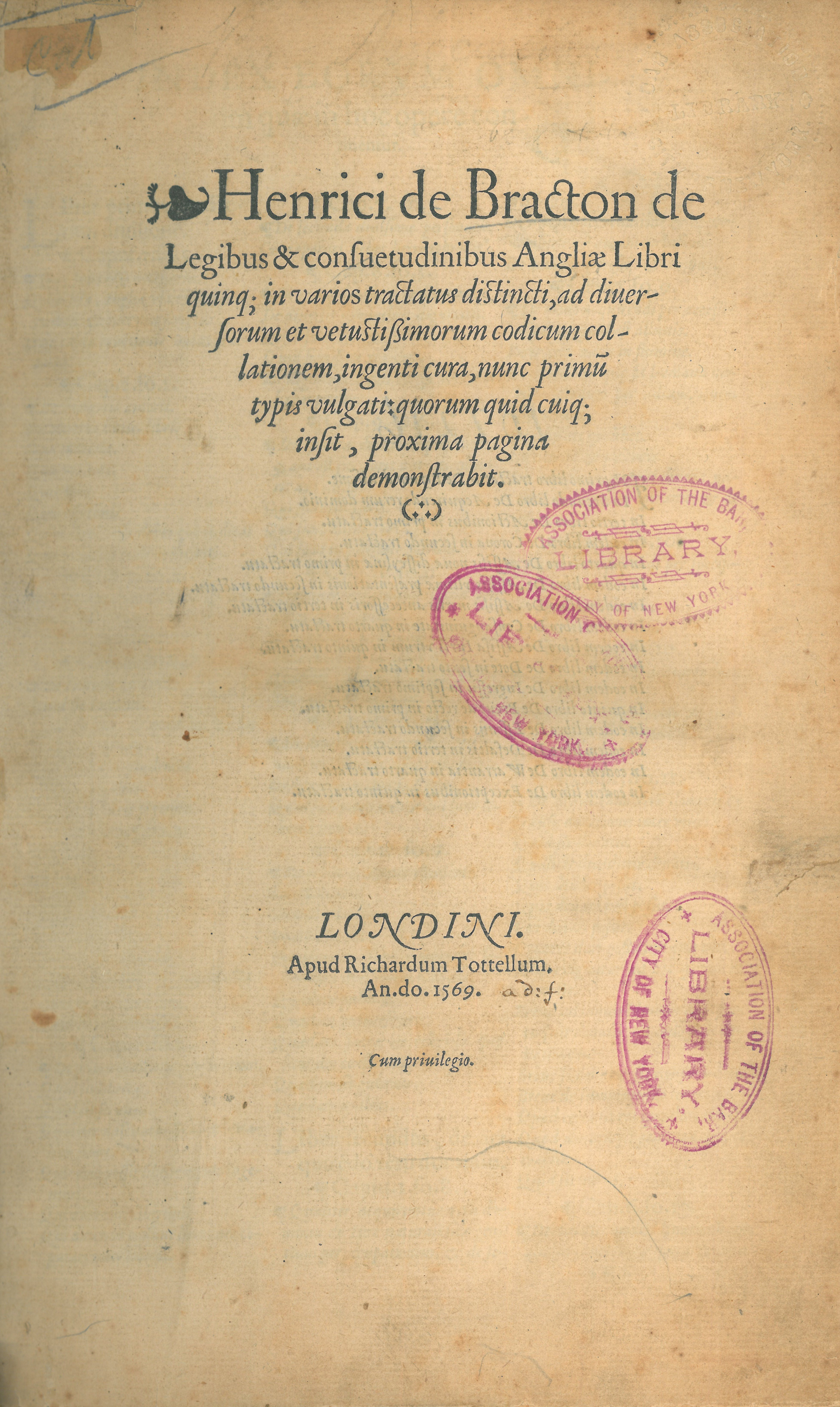 Title page of Henrici [Henry] de Bracton (1569) T.N. , ed. De legibus & consuetudinibus Angliæ libri quinq[ue]; in varios tractatus distincti, ad diuersorum et vetustissimorum codicum collationem, ingenti cura, nunc primu[m] typis vulgati: quorum quid cuiq[ue]; insit, proxima pagina demonstrabit [Five books on the laws and customs of England; divided into various treatises, in order to make a collection of diverse and most ancient books, with great care, now for the first time in vulgate type: what is in each of them, the next page will show] (1st ed.), London: Apud Richardum Tottellum [At the house of Richard Tottel] OCLC: 41109107. As the stamps indicate, this copy of the book was formerly in the Rare Book Collection of the library of the New York City Bar Association.